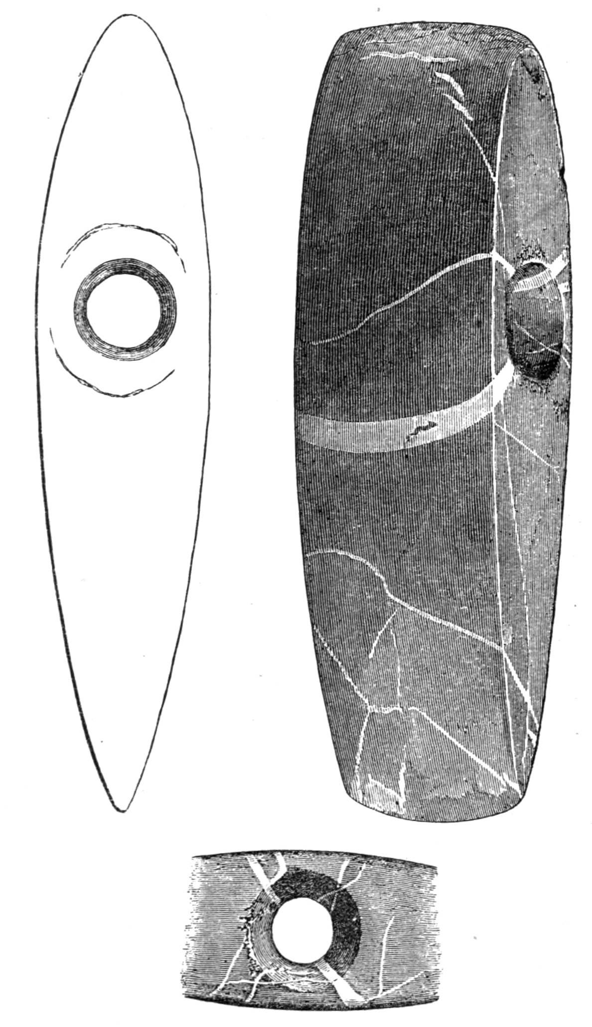 Fig. 140.—Stone Axe-hammer, East Kennet